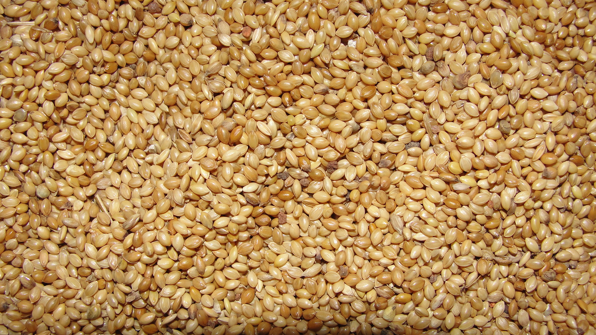 A closeup of Thinai millet with husk.